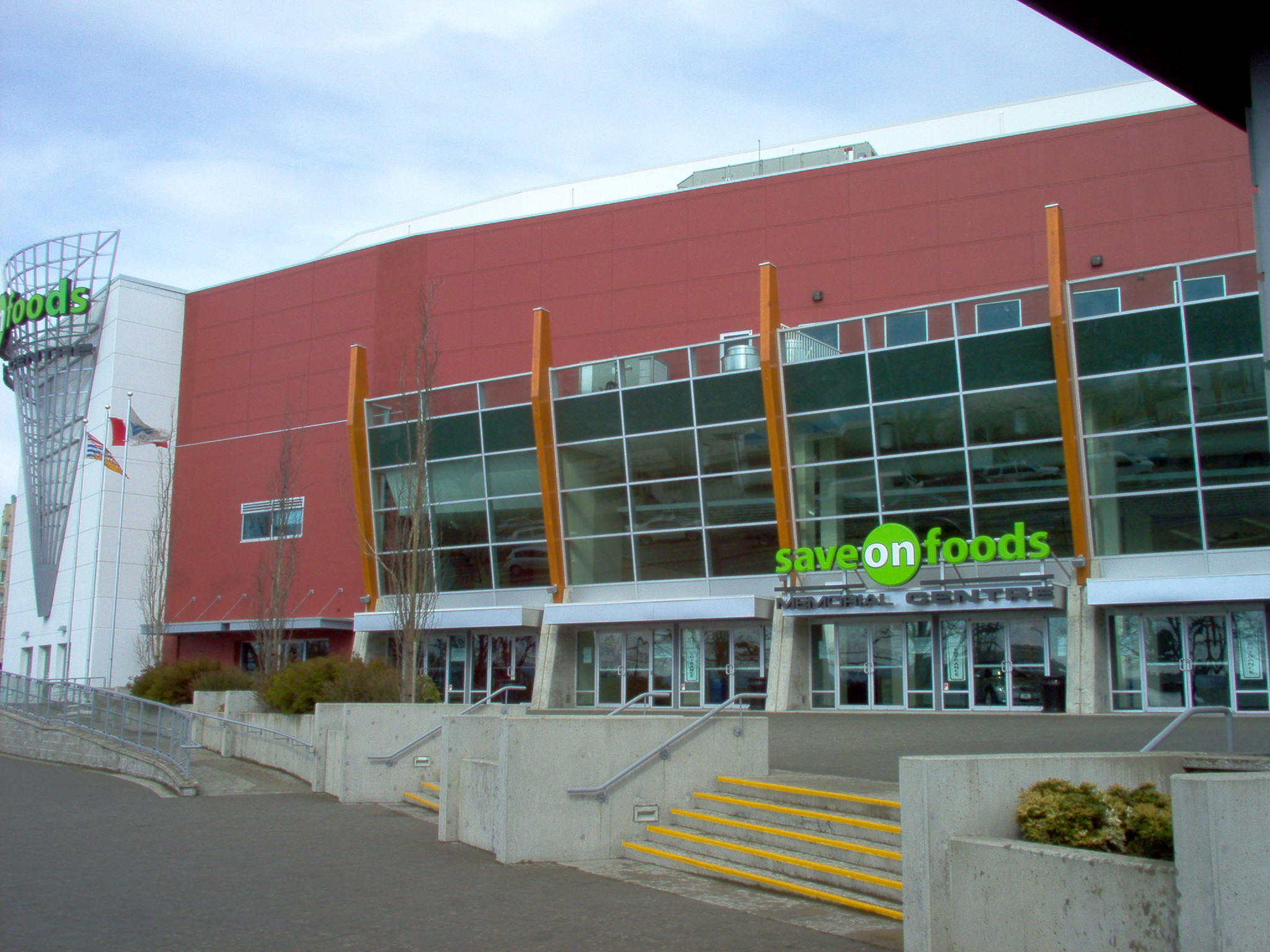 Exterior shot of the Save on Foods Memorial Centre in Victoria, BC.